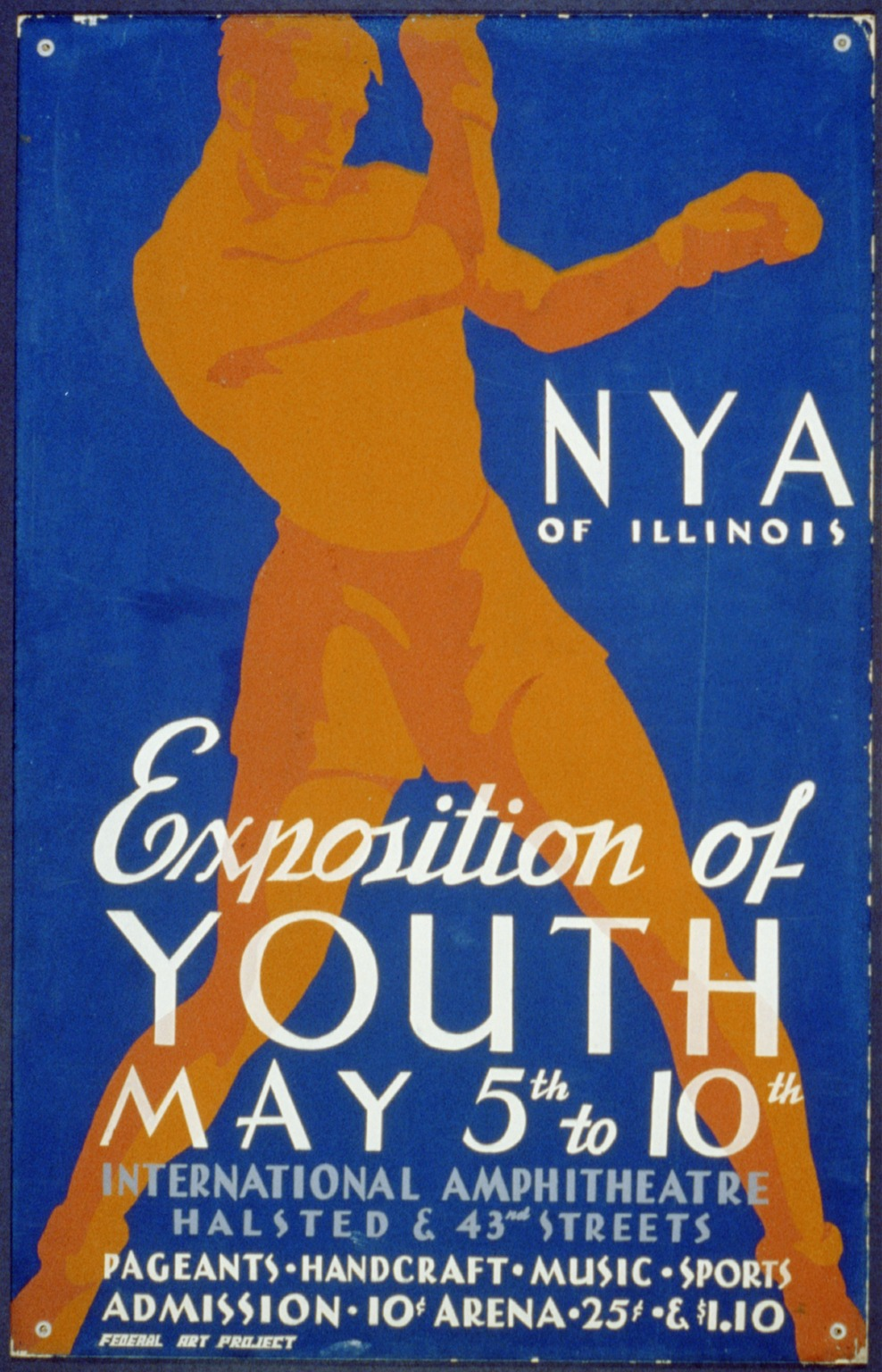 Title: N.Y.A. of Illinois--Exposition of Youth ... pageants, handcraft, music, sports Abstract: Poster for National Youth Administration exposition showing a boxer. Physical description: 1 print on board (poster) : silkscreen, color. Notes: Work Projects Administration Poster Collection (Library of Congress).; Attributed to Carken.